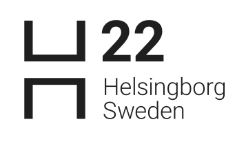 Logotype of the 2022 City Expo in Helsingborg, Sweden